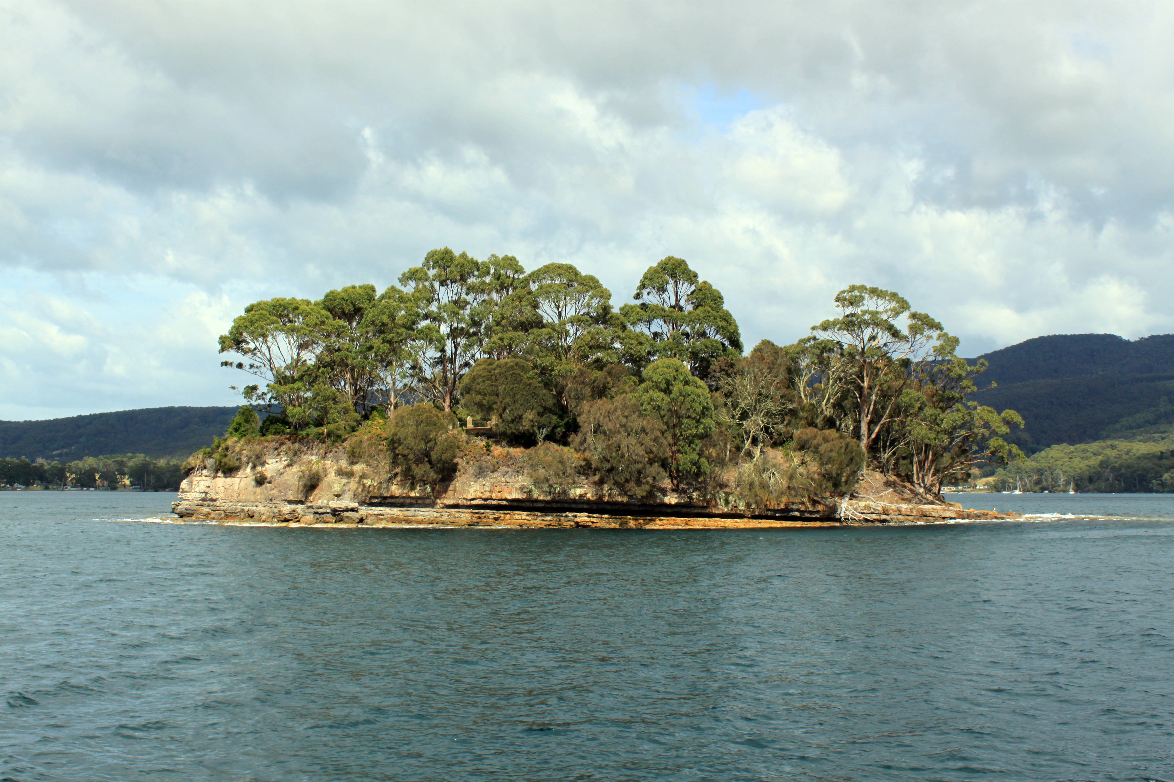 Isle of the Dead, Port Arthur Ex penal colony, Tasmania, Australia